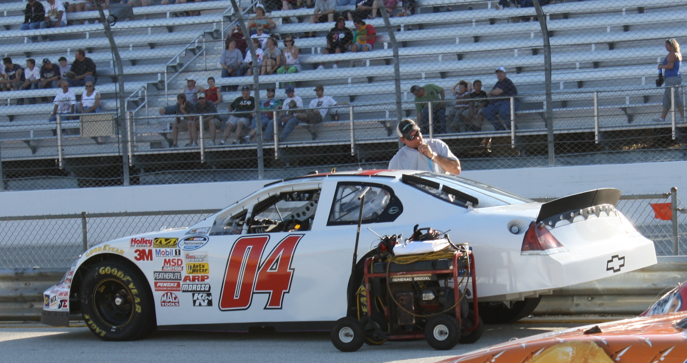 NASCAR driver Kertus Davis Chevrolet at the 2009 Northern 250 Nationwide Series race at the Milwaukee Mile.